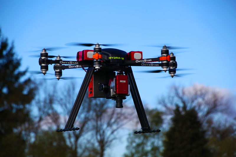 Agricultural research conducted with a drone and hyperspectral camera in April 2016 in Belgium.